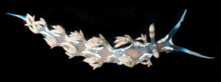 Photo of dorsal view of Flabellina engeli.